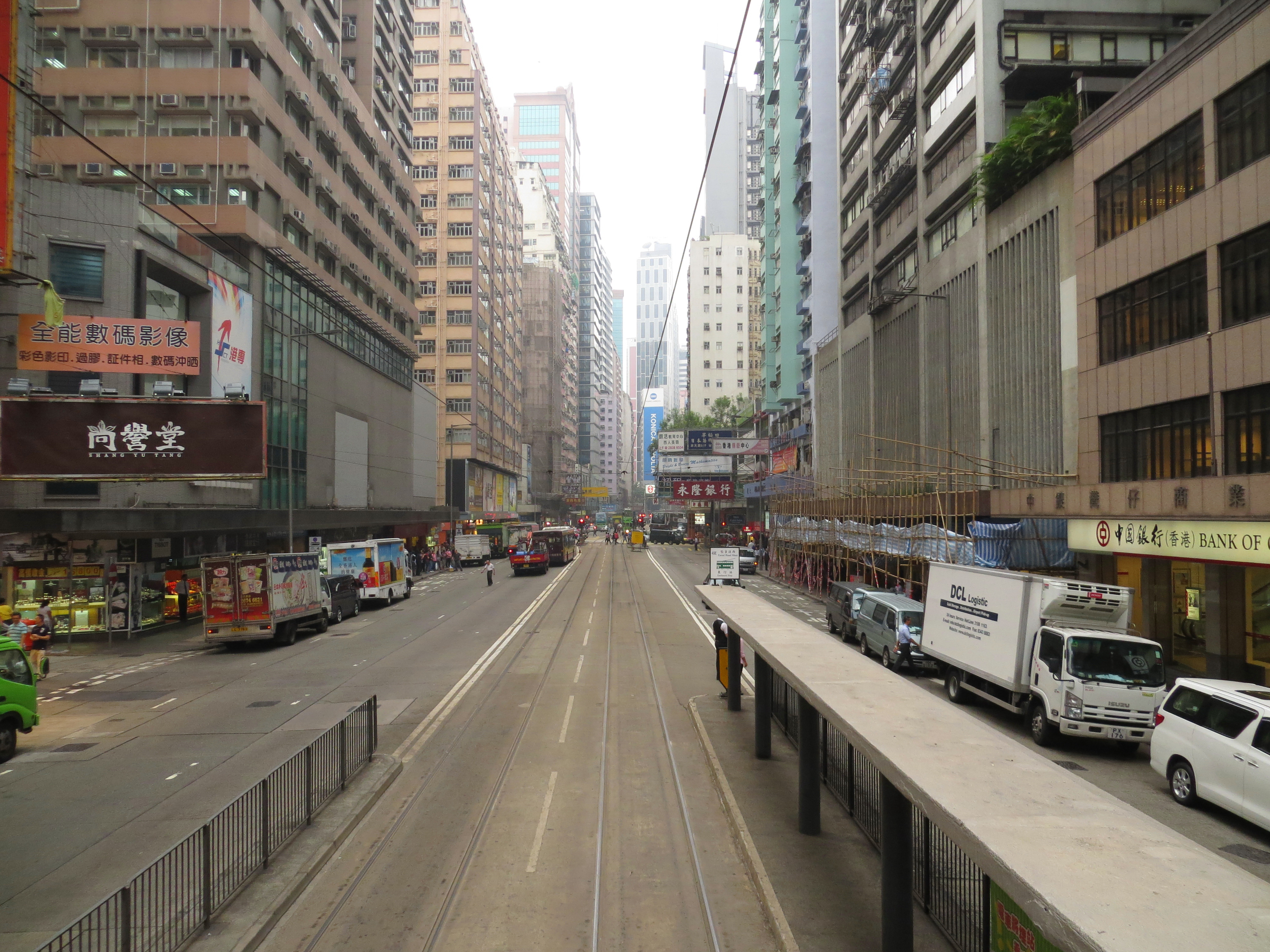 Hennessy Road near Canal Road, Hong Kong.